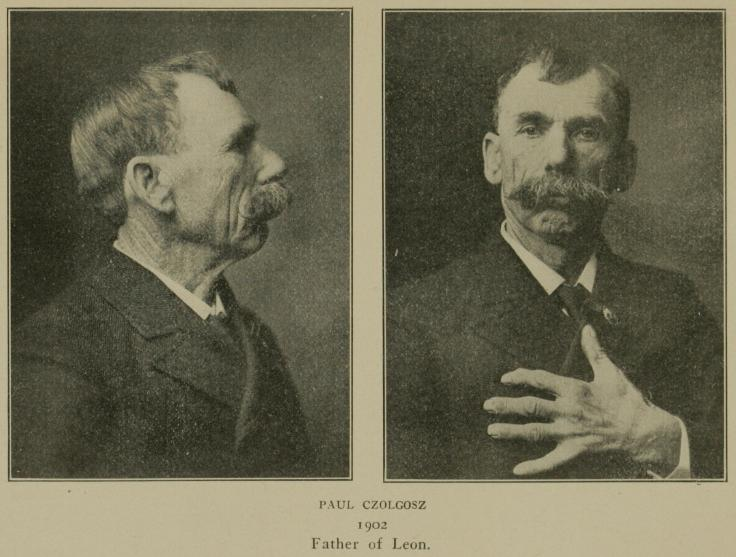 Paul Czolgosz, father of assasin Leon Czolgosz